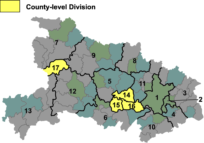 Map of prefectures of Hubei Province (note that the boundary between Zengdu District and Sui County of Suizhou was established in late 2009;[1] the line drawn between these two areas was drawn by hand in MS Paint and IS NOT exact.)